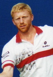 Boris Becker at the 1994 Thriftway Championships, Cincinnati, Ohio